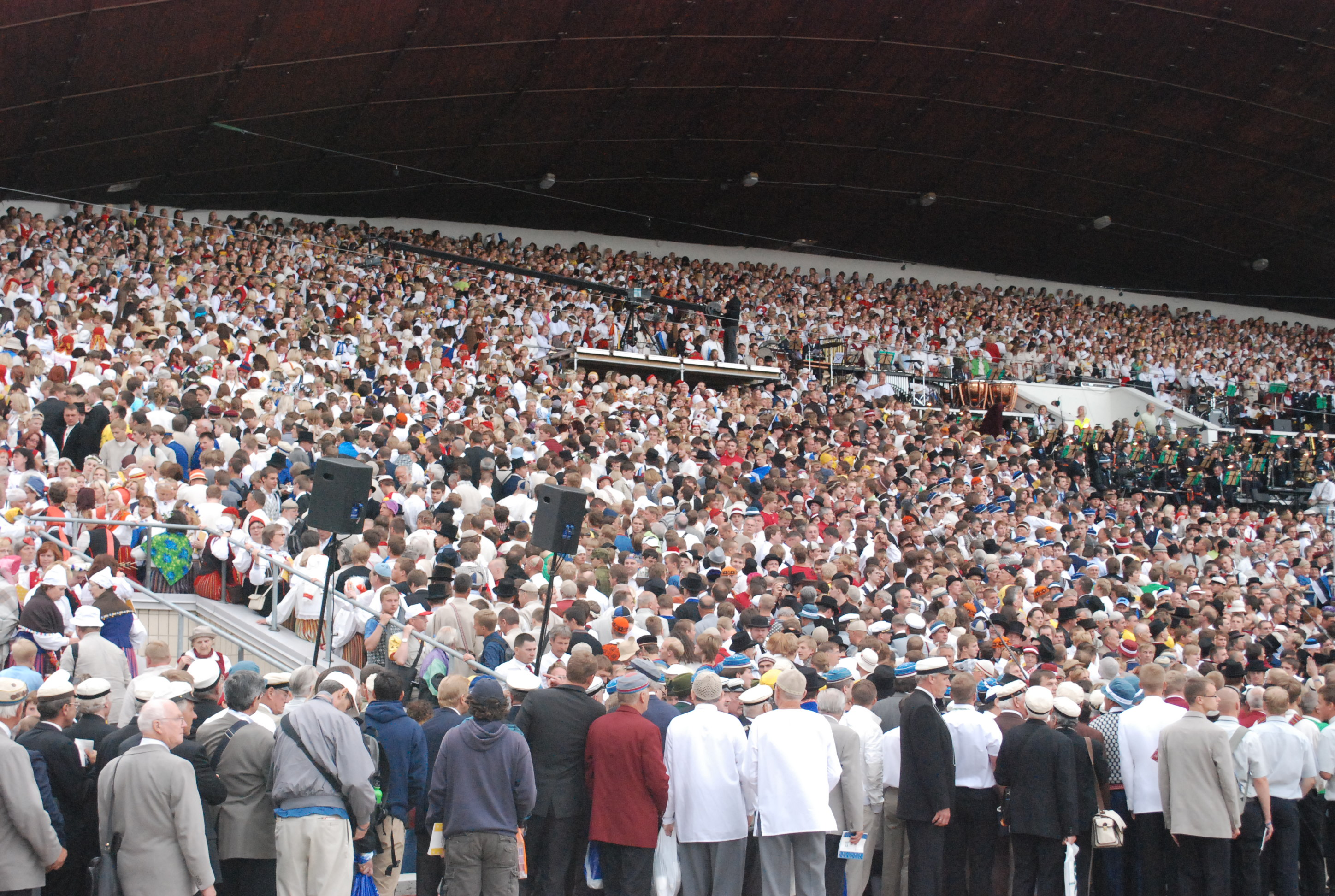 25th Estonian Song Celebration.